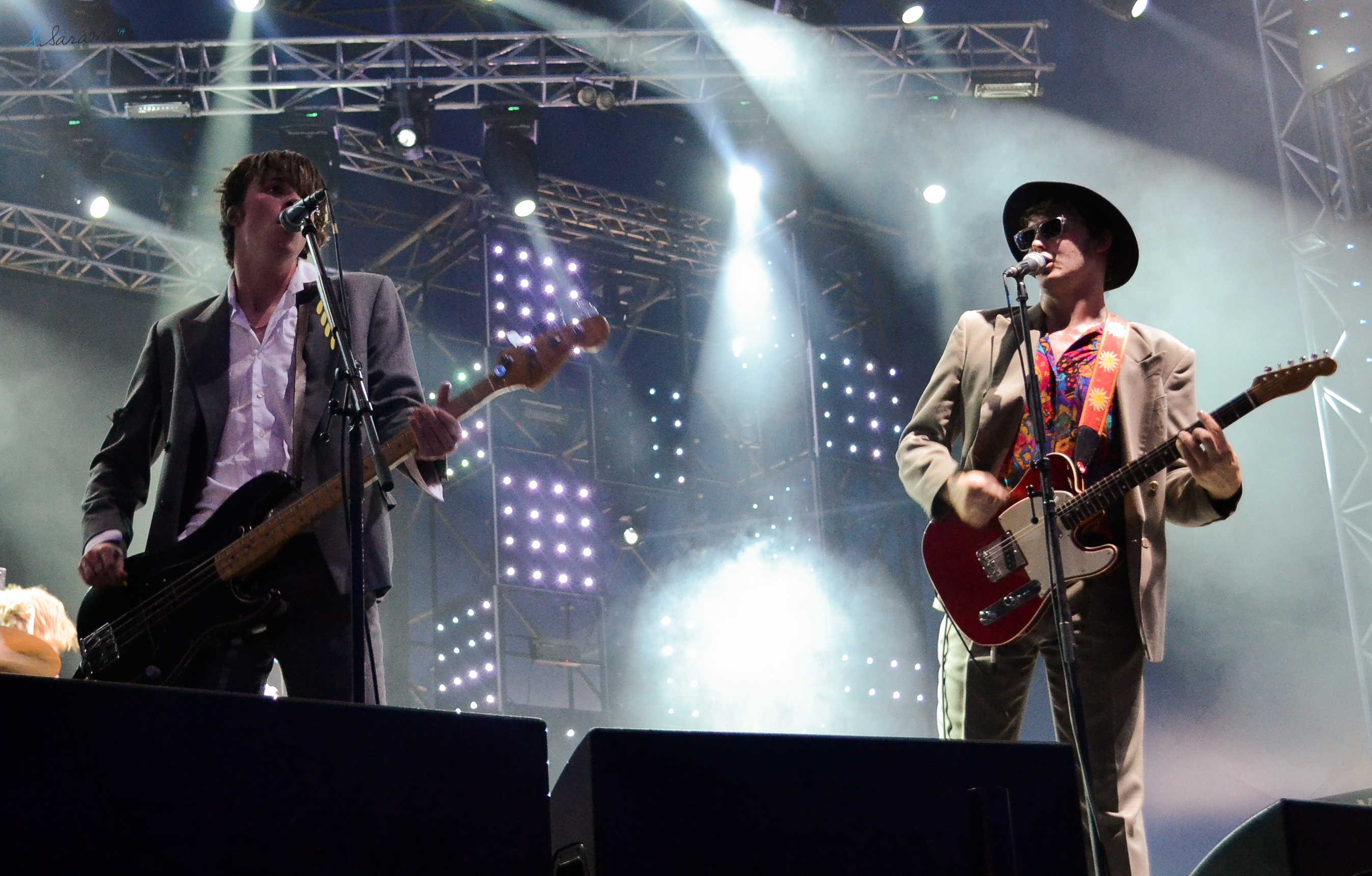 Palma Violets @ Sziget Festival 2014